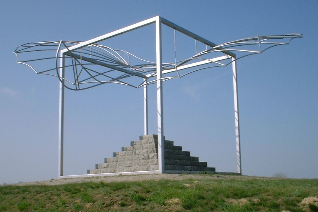 Lilienthal Memorial near Krielow in Brandenburg, Germany